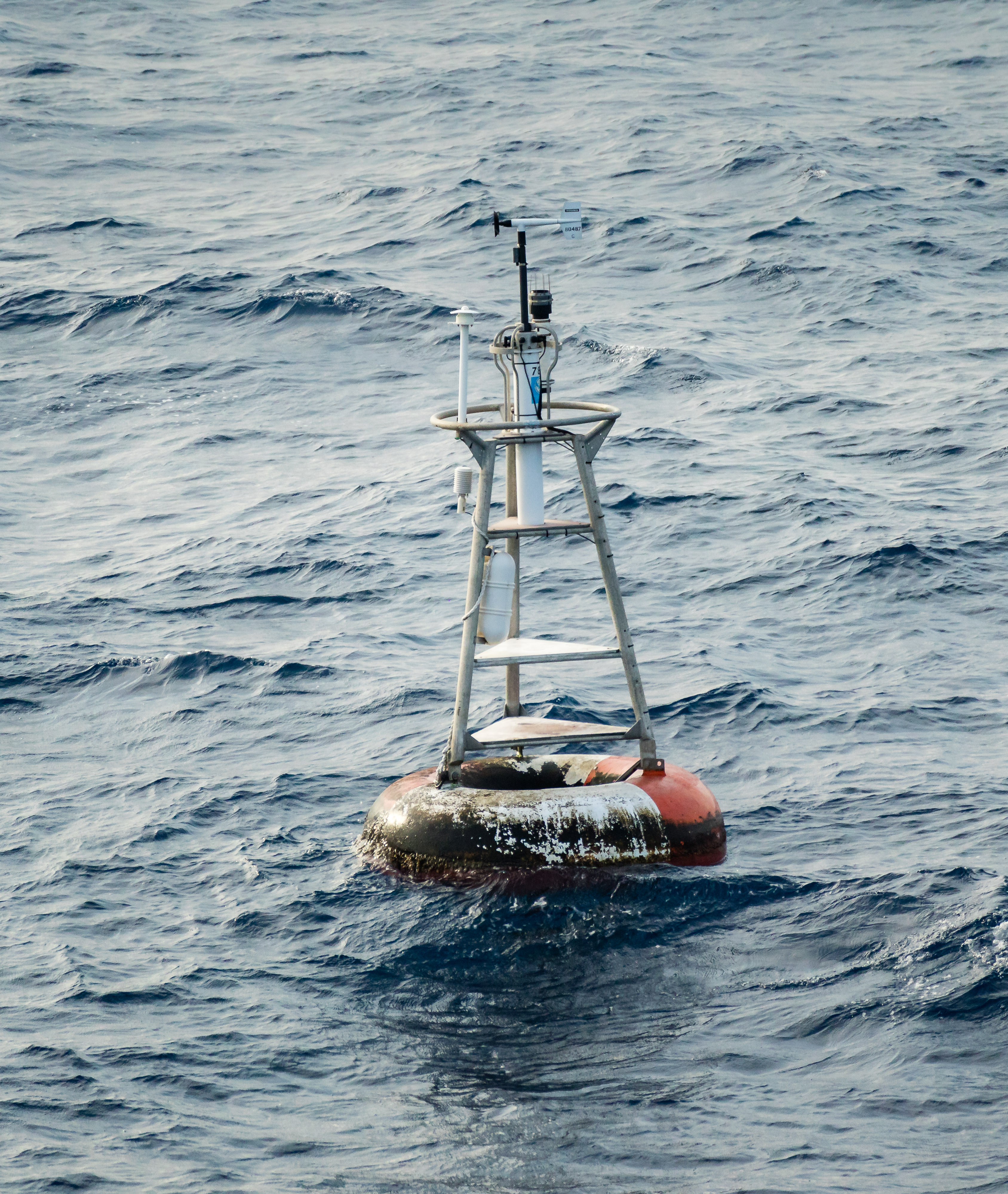 National Data Buoy Centre weather buoy Station 13010 - Soul, at 0 deg latitude, 0 deg longitude. Maintained by the PIRATA (Prediction and Research Moored Array in the Atlantic) project.